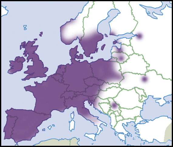 Oxychilus cellarius (Müller, 1774). Distribution in Europe, scientific state of knowledge of 2012. Source description in English. Light colour indicated rare occurrences or regions where the species could eventually be expected to occur. Dark colour indicated relatively reliable occurrences, as well as regions where the species was expected to occur, and where the species was not known to be extremely rare. Dark colour indications were not necessarily based on published records. Species summary in AnimalBase